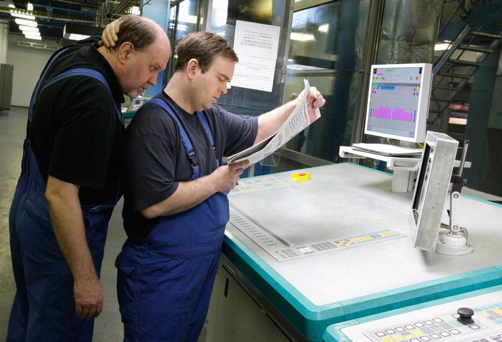 “Cutting-edge printing complex "Extra M" in Krasnogorsk near Moscow”. QA at the cutting-edge printing complex "Extra M" in Krasnogorsk near Moscow, one of the largest Russian companies that produce full-color newspapers and magazines.